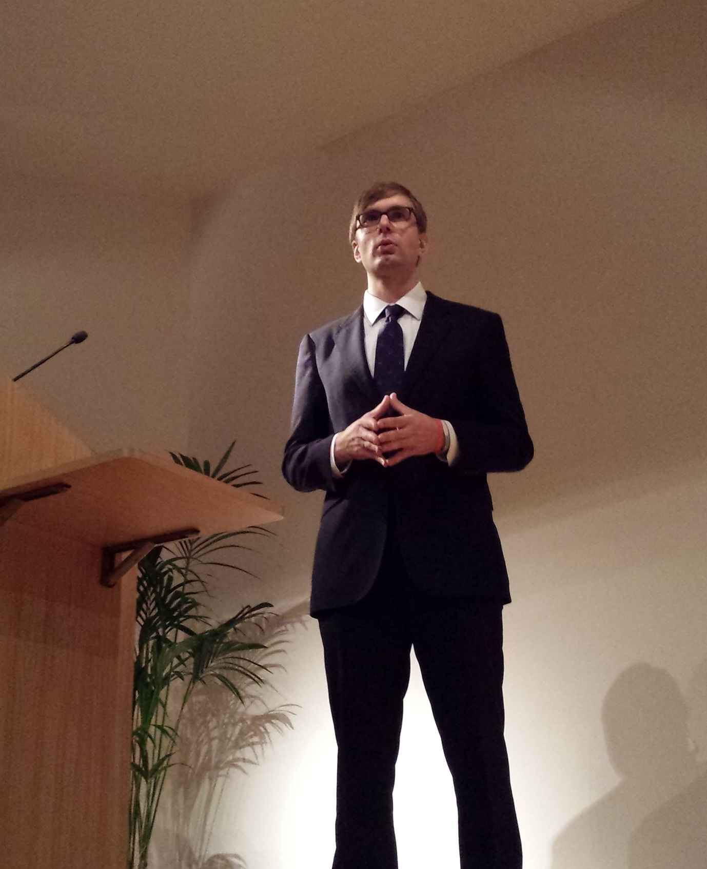 Andrew Zerzan giving a lecture on financial regulation to students and academics, 2014